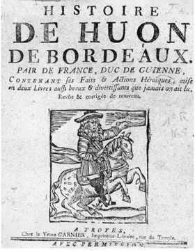 Huon de Bordeaux printed in Troyes (France) circa 1720 by Veuve Oudot (Anne Havard) Bibliothèque bleue series